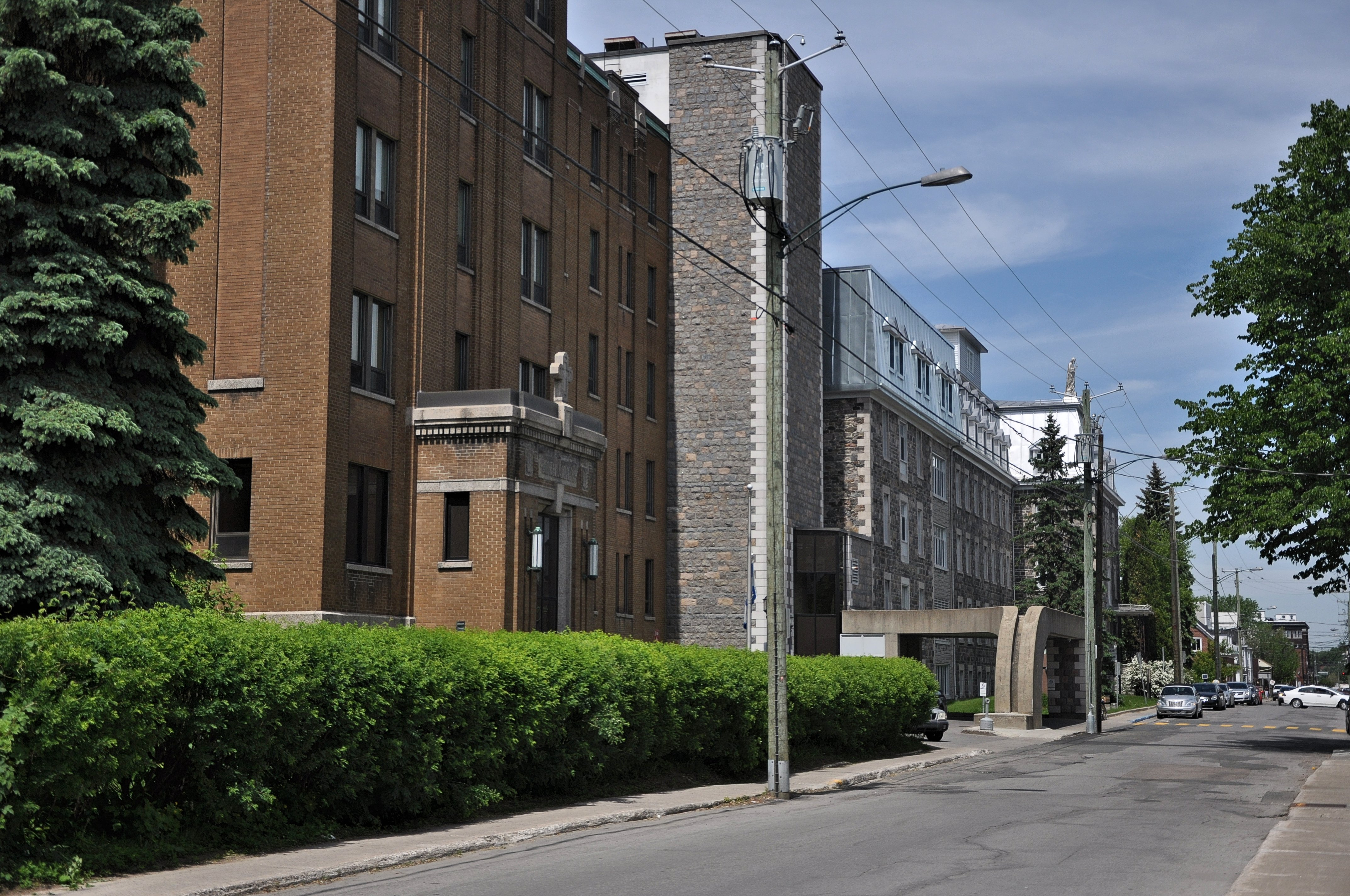 St Joseph's is the occa building in the foreground. The Trois-Rivières CSSS* has built a much larger grey brick building and incorporated St Joseph's into the complex. You can just see Saint Joseph himself at the top of the far building. Centre de Santé et de Services Sociaux or Centre for Health and Social Services.